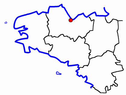 Description: Map for localisazion of cantons of Bretagne region in France Source: made by Hervé Tigier in april 2005 from another large map (published in 1990)